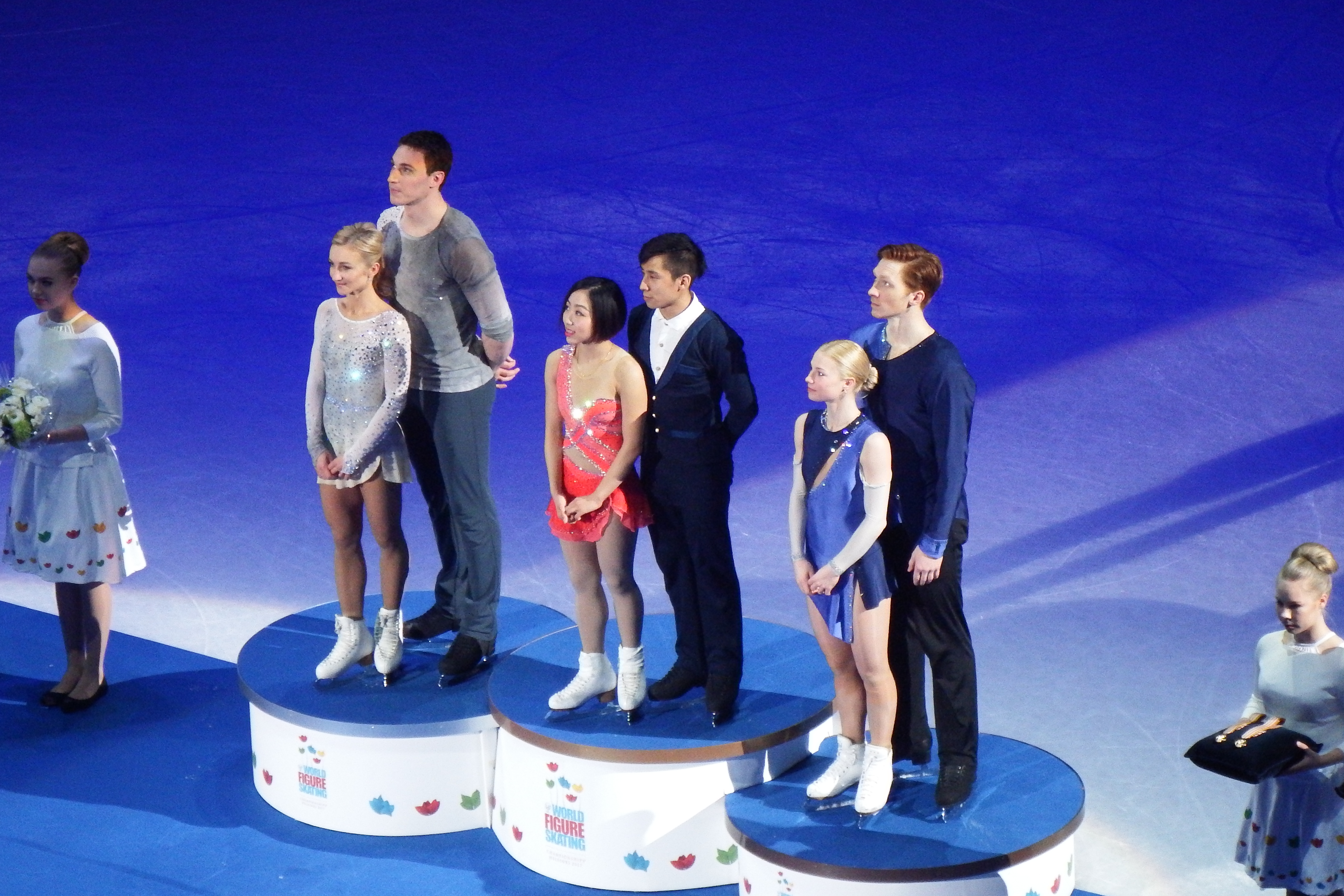 Awarding of winners in pair skating, World Figure Skating Championships in Helsinki 2017